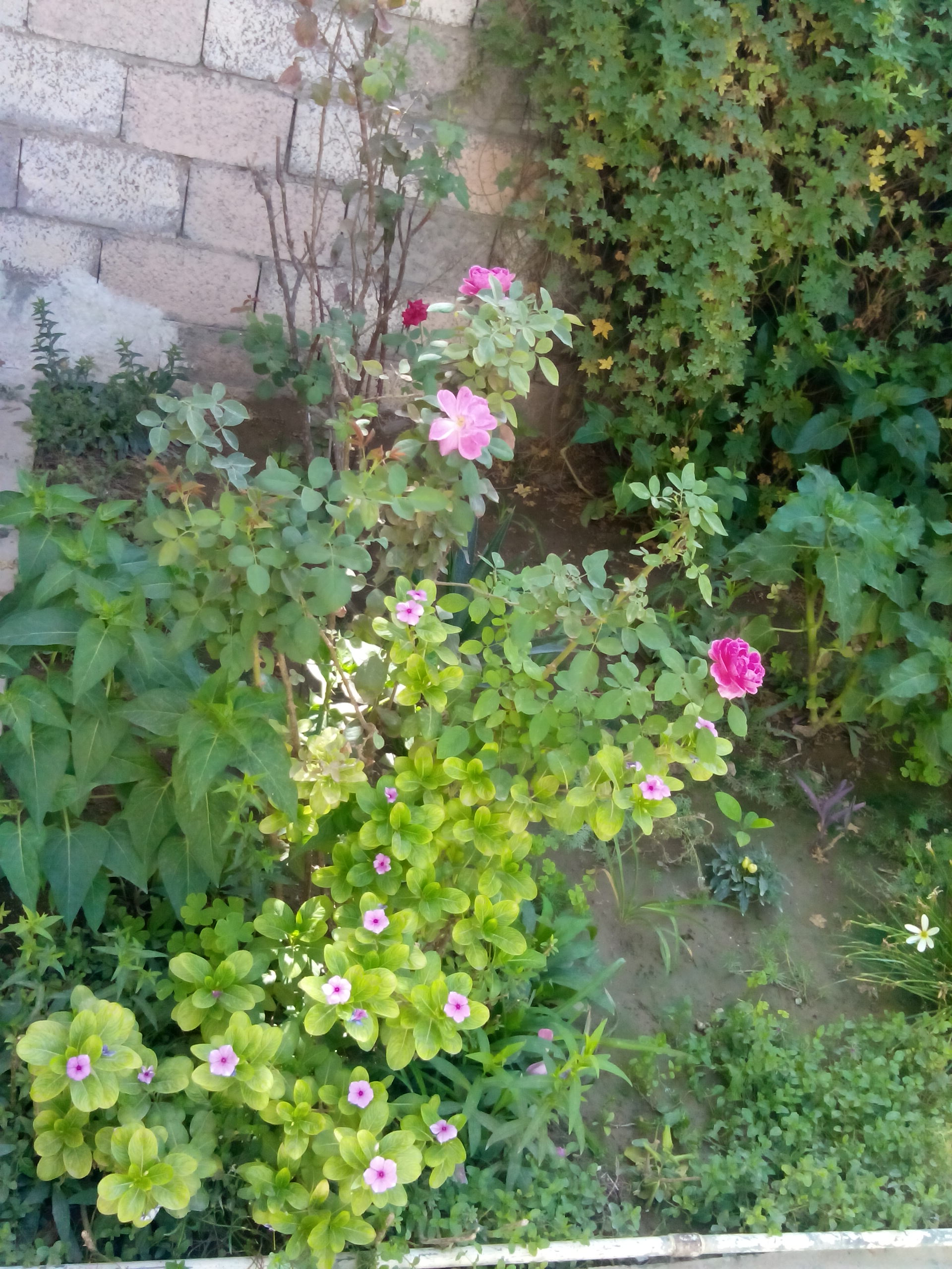 Red Flower's in Baghdad